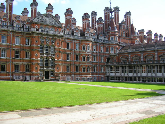 Royal Holloway College The upper quadrangle